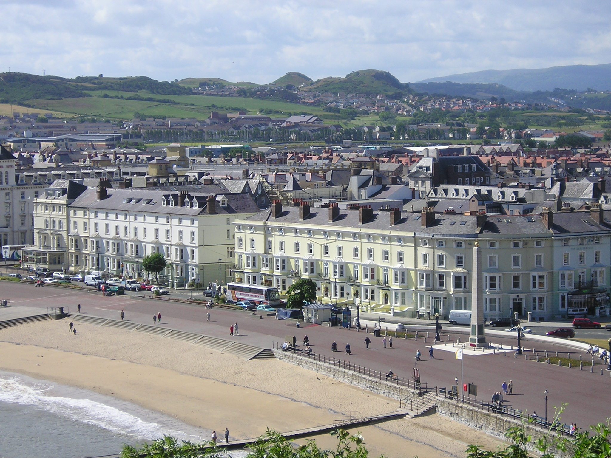 Taken by me, Noel Walley on 18/06/2004